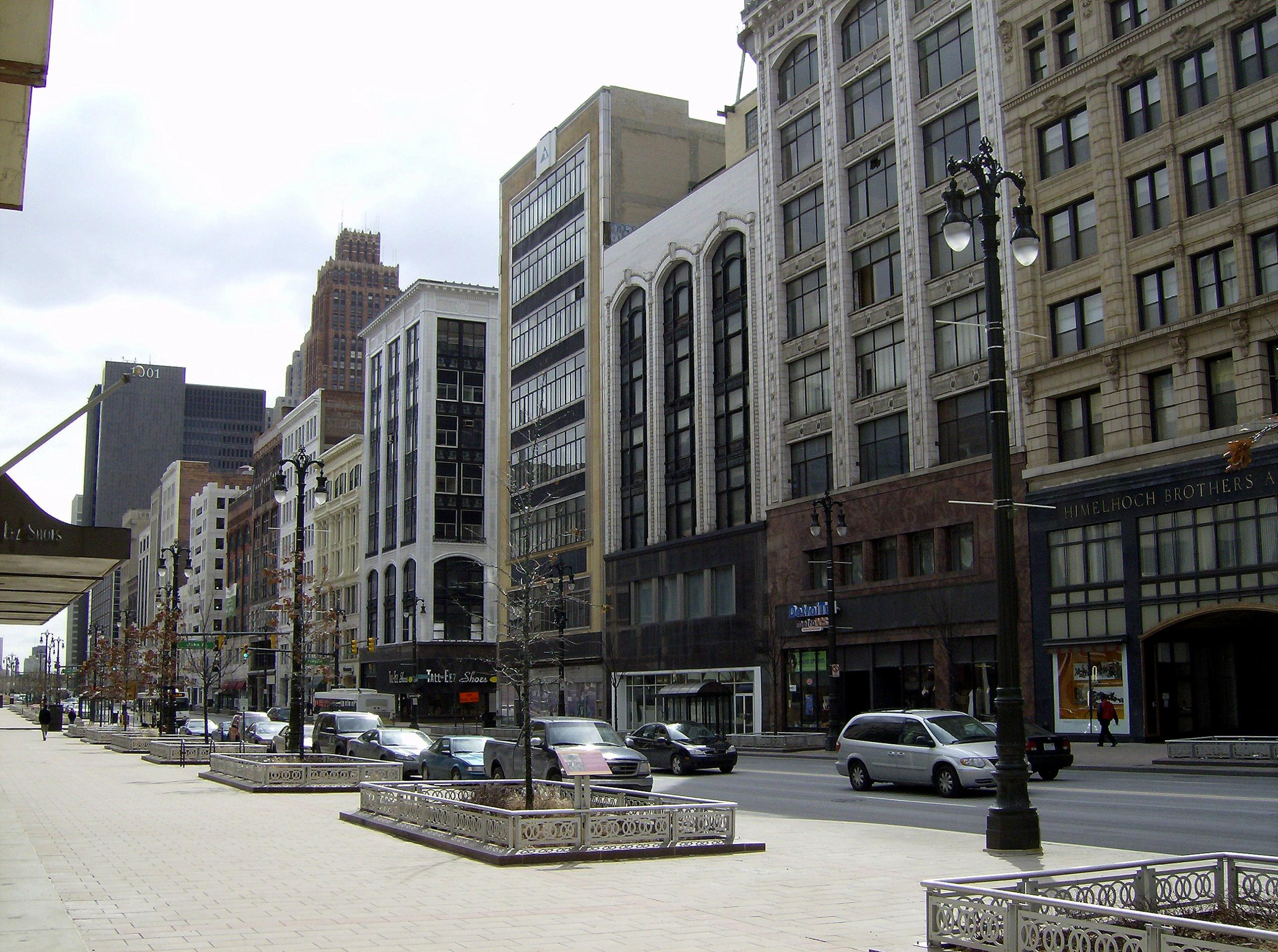 Merchant's Row on Woodward Avenue — downtown Detroit, Michigan.